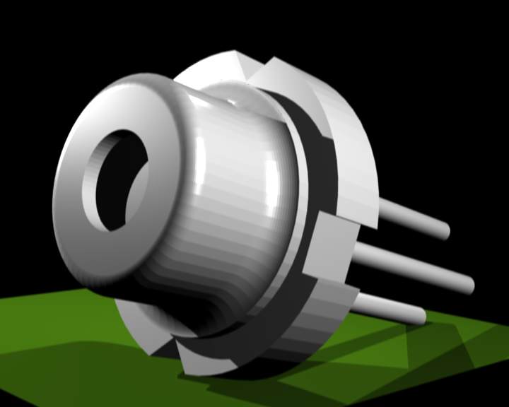 This is a computer rendered image of the most common housing of laser diodes, called "5.6mm". Dimensions are according to the specs. CAD-Tool used: Varicad v2.01 render engine: Blender v2.41.